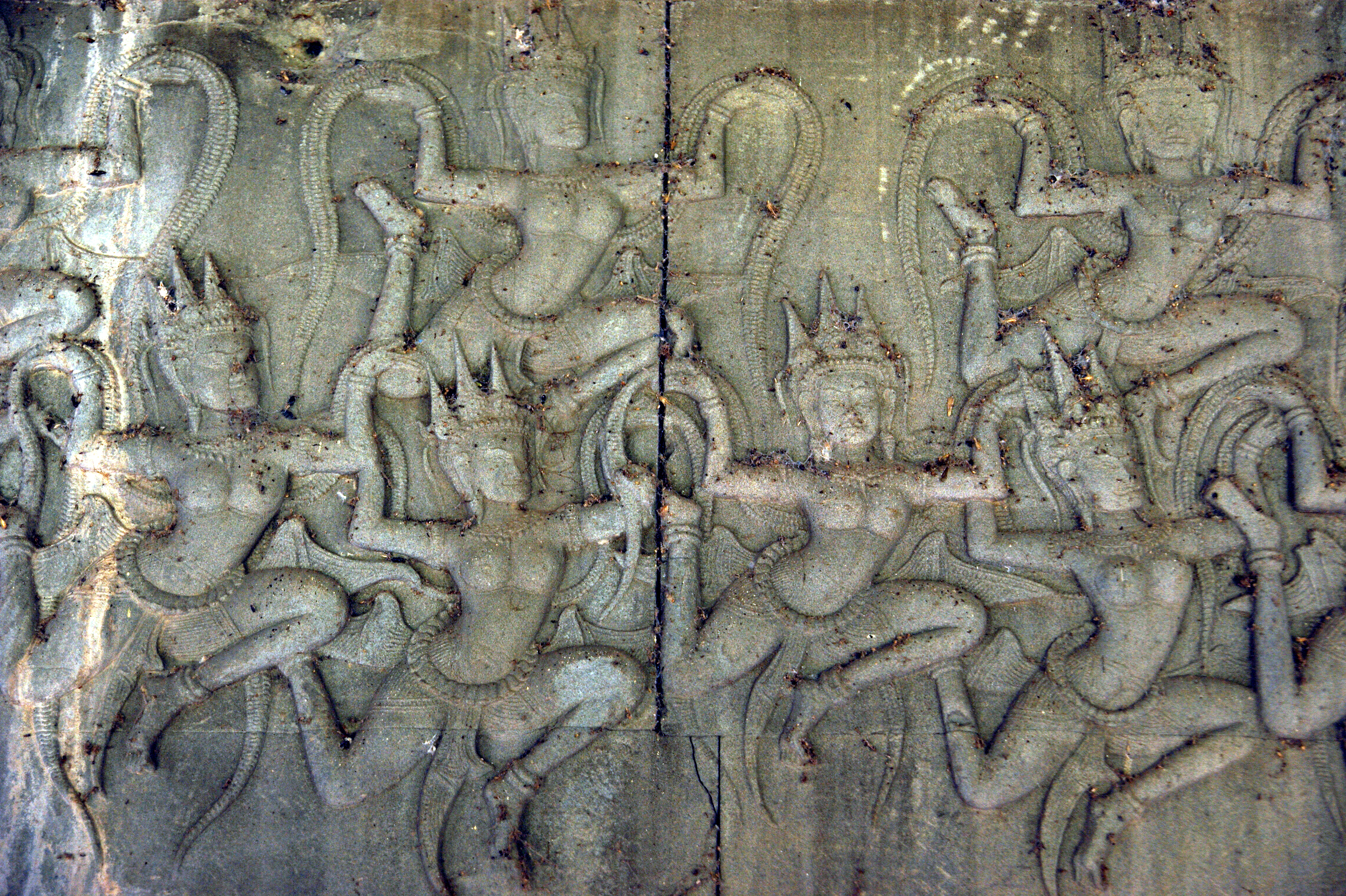 Finely carved reliefs from the ruins of the ancient Buddhist Preak Khan temple at Angkor in Siem Reap, Cambodia. Angkor Wat has been designated a world heritage site by UNESCO.